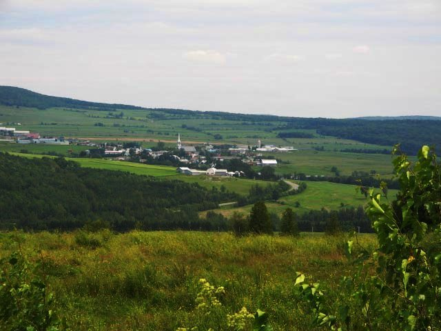 This is a view of the small town known as Chesterville, Quebec, Canada.